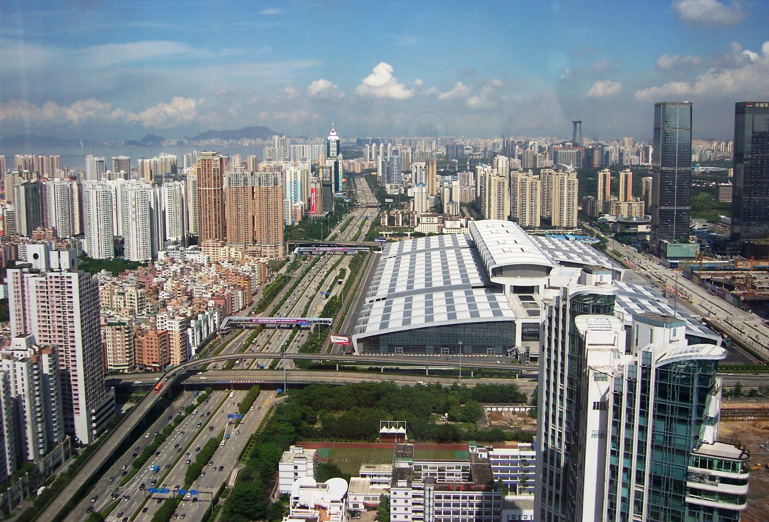 Shenzhen Convention and Exhibition Center